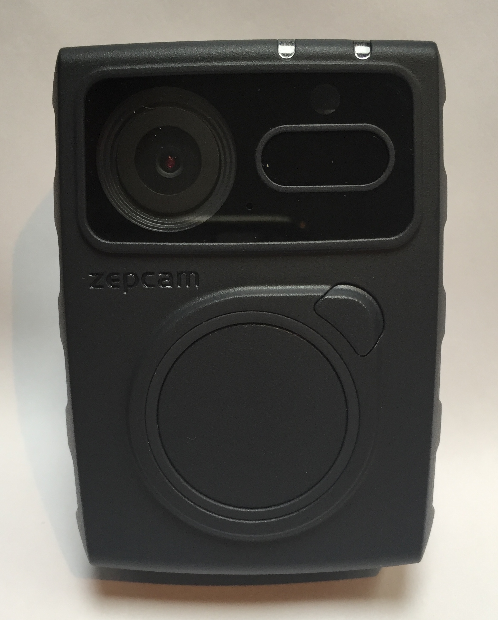 Body camera (Zepcam, type T2)